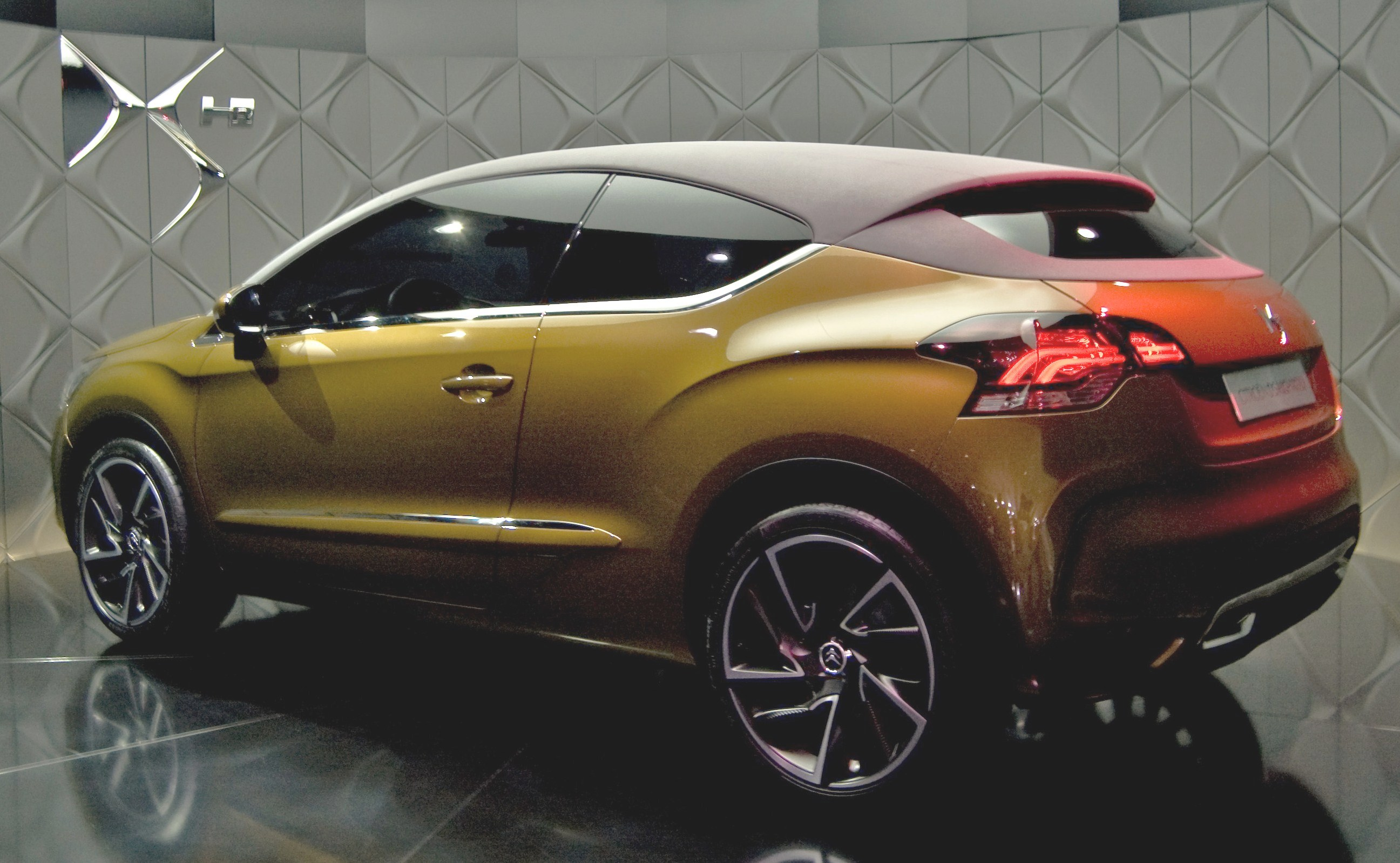 Citroën DS High Rider rear